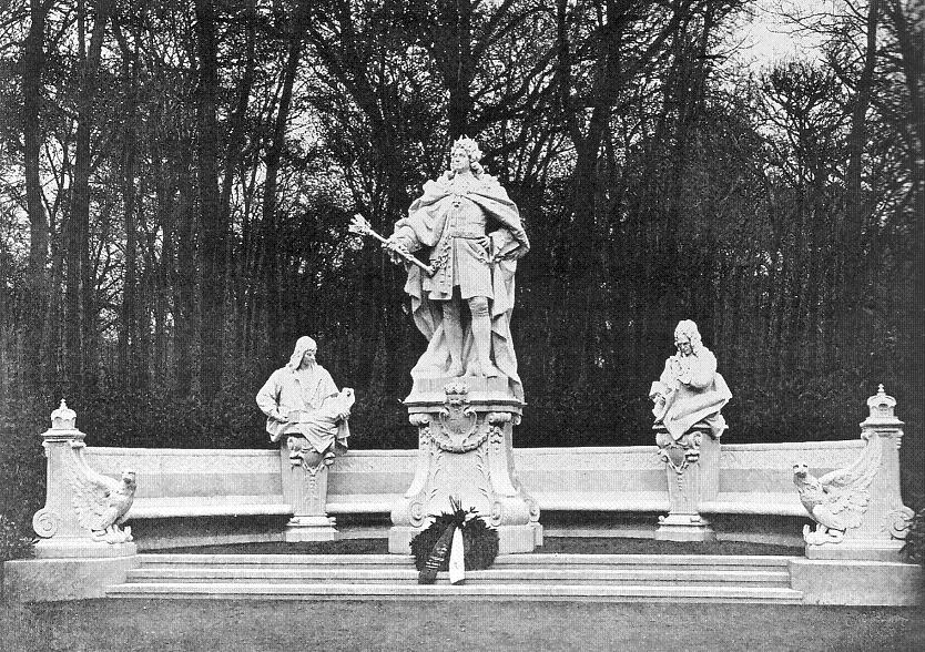 Monument group № 26 in the former Siegesallee in Berlin. The central monument commemorates Frederick I of Prussia. The bust on the left commemorates architect Andreas Schlüter; the bust on the right Prime Minister Eberhard von Danckelmann. Sculptor: Gustav Eberlein, unveiled on 3 May 1900.